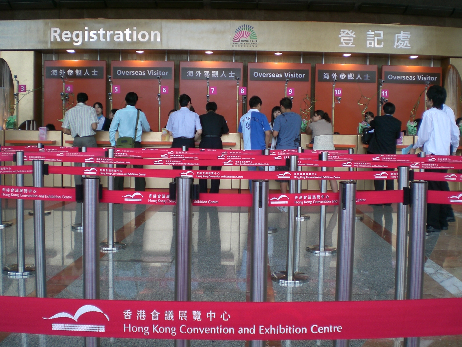 香港會議展覽中心, Hong Kong Convention and Exhibition Centre, Wan Chai, Hong Kong.